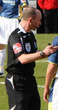 Photo of football referee Mike Dean